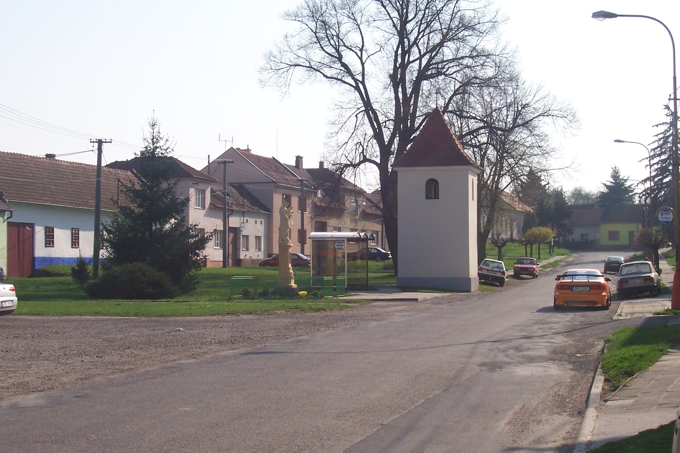 Kudlovice in Uherské Hradiště District, Czech Republic.Common with belfry.